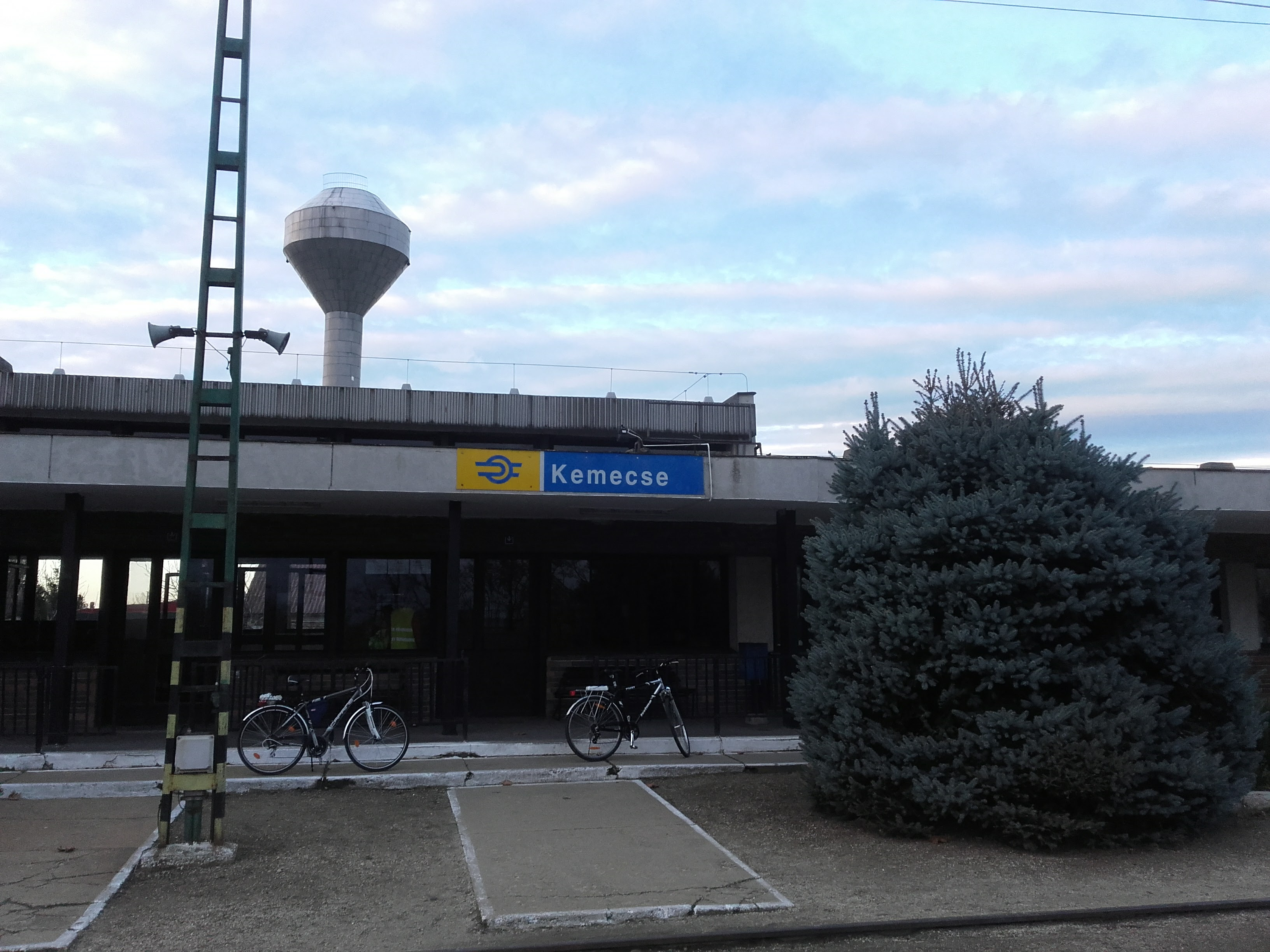 Train station in Kemecse, Hungary, on a route from Szolnok.